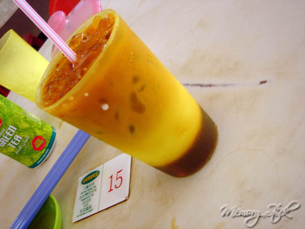 Teh C Peng as the local will call it.